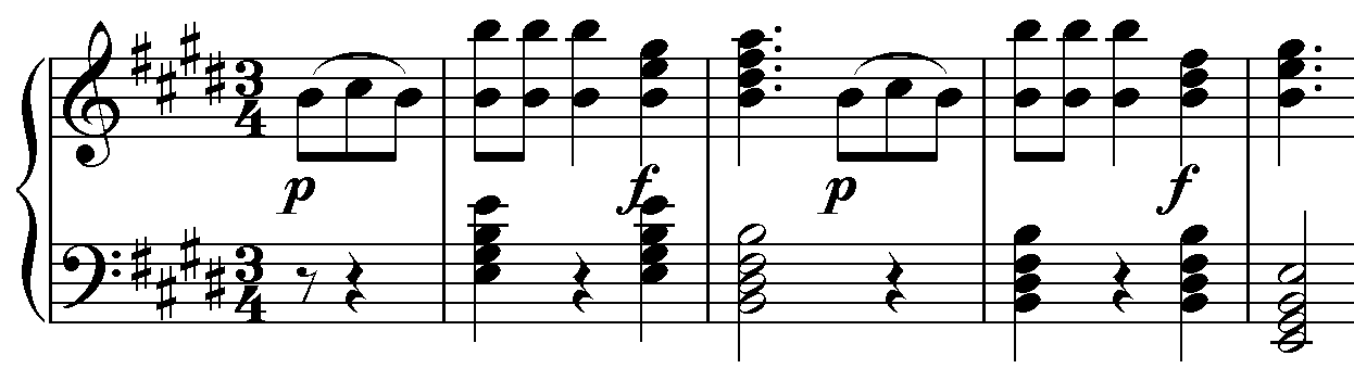 Johan Strauss Sr Tauberln-Walzer, Op 1, No 8